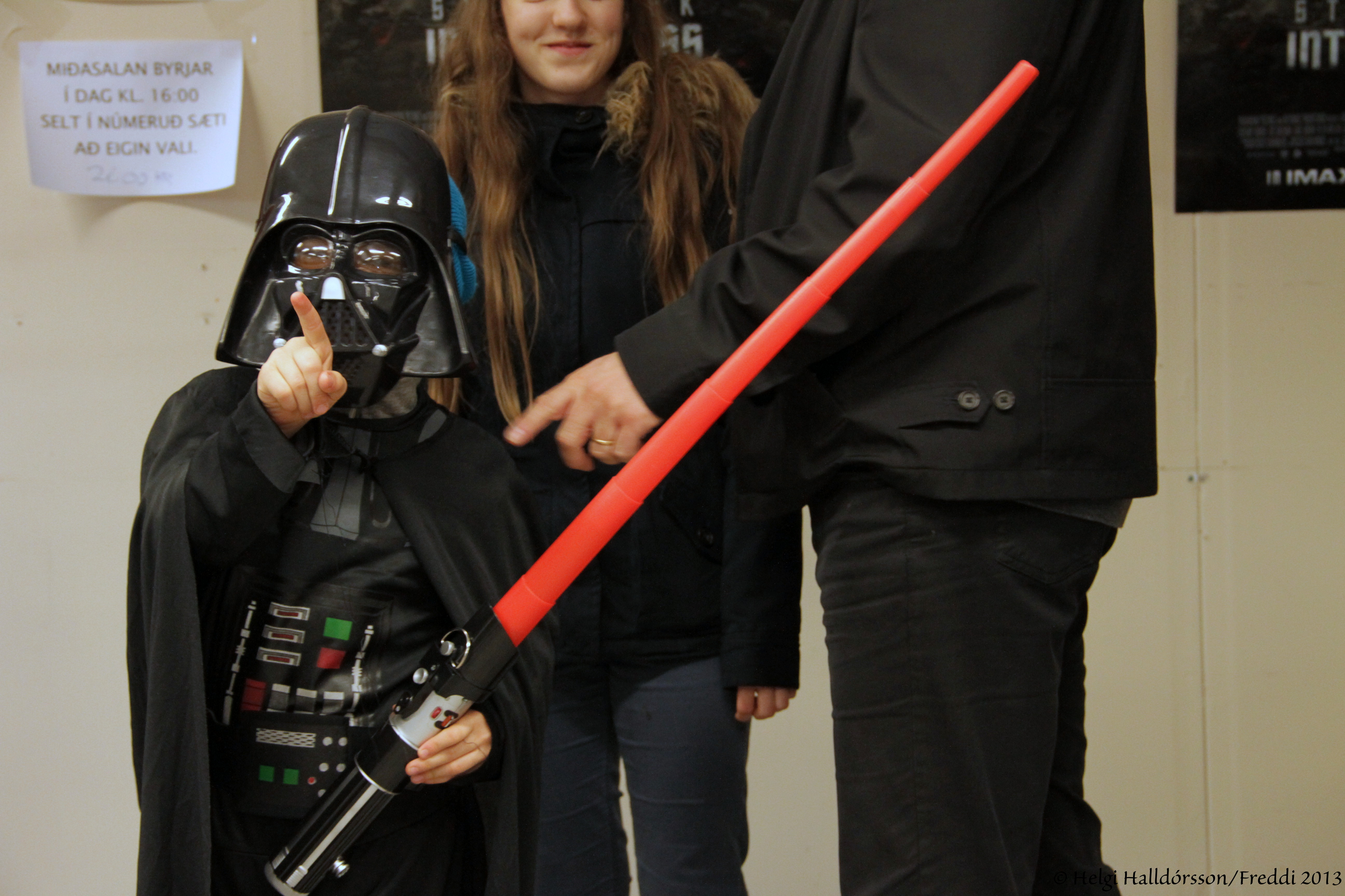 From the May the fourth be with you day and also the free comic book day in Reykjavík, Iceland.